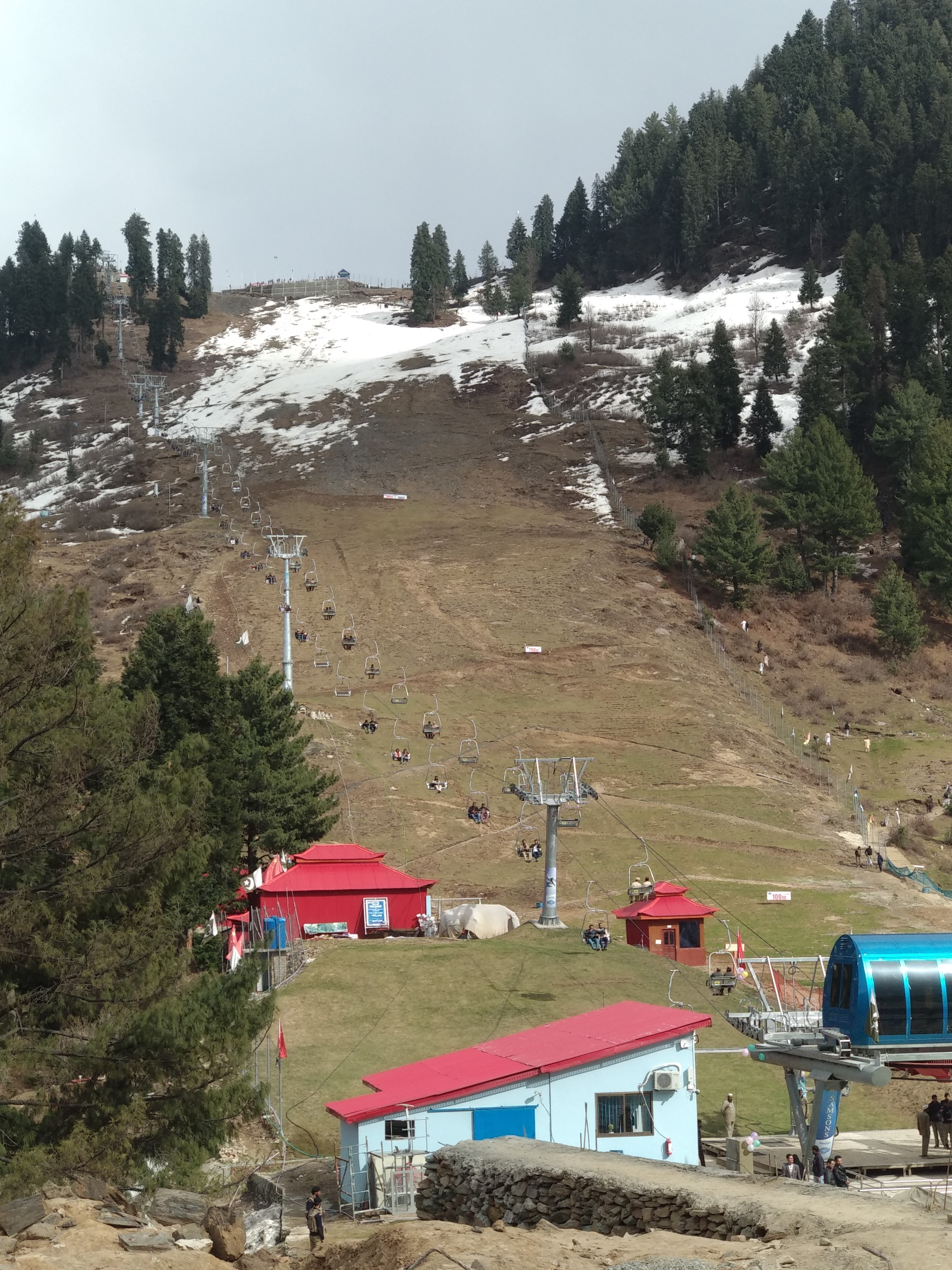 view of Malam Jabba skee resort during March - April 2018